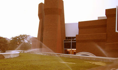 Wexner centre for the arts (location ?). I took it. Larger version available on request. Incidentally, I don't recall if GFDL was a tag I gave Angela permission to add for me (maybe over IRC? I sometimes see her there), but GFDL works for me, and I thought I'd publicly state it so it's clear there's no impropriety. Category:Ohio State University